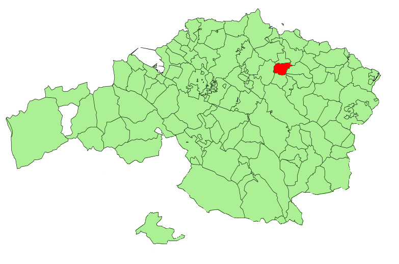 Forua municipality in the province of Biscay